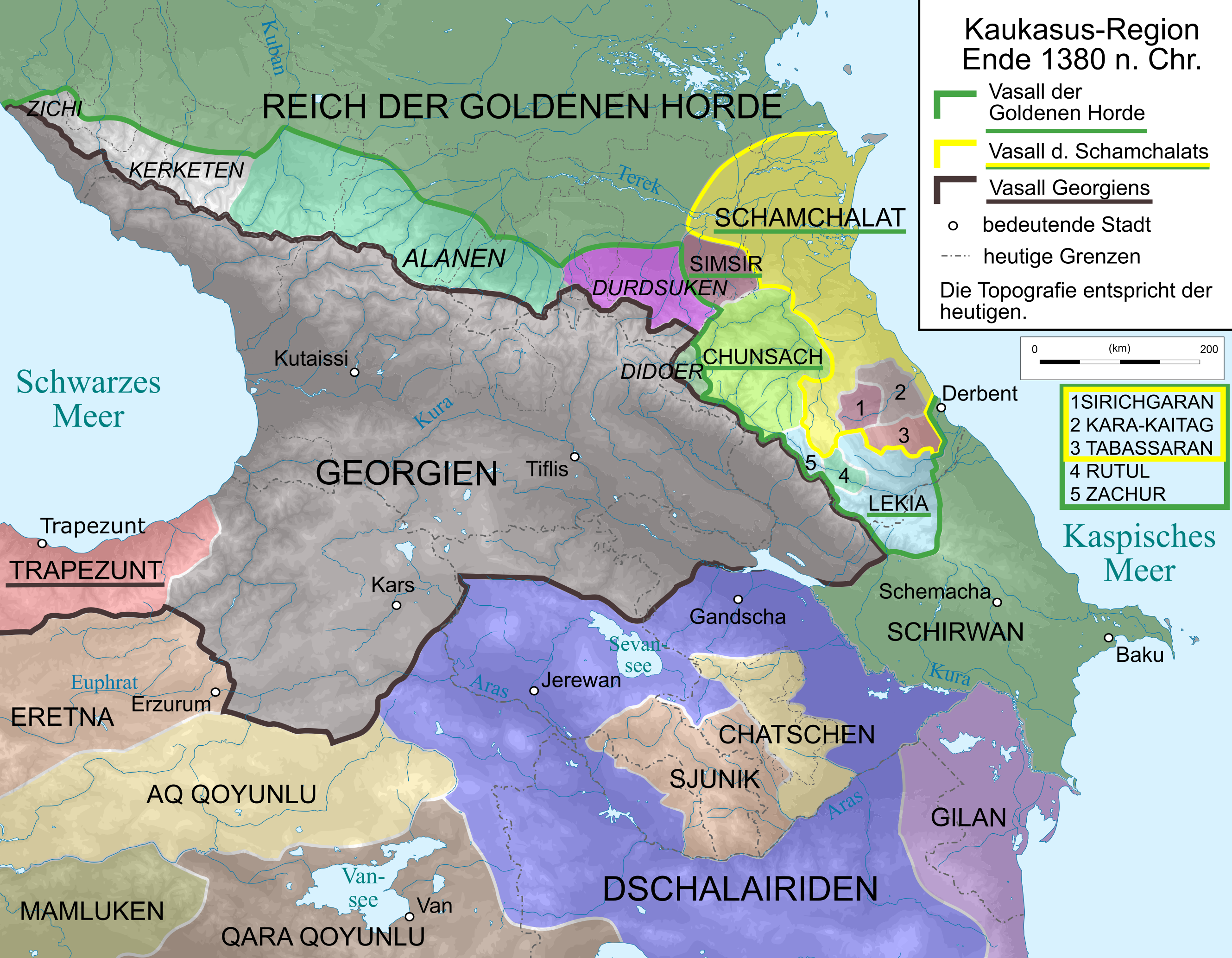 Map of Caucasus Region around 1380 in German.